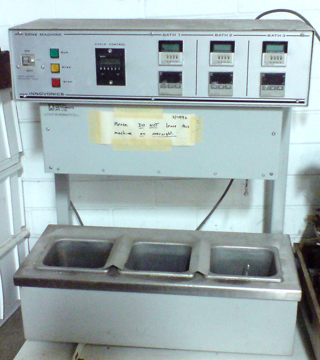 Early model of a Polymerase Chain Reaction machine, a "Gene Machine" made by Innovonics. It features three constant temperature baths and a robotic action that moves samples between the baths